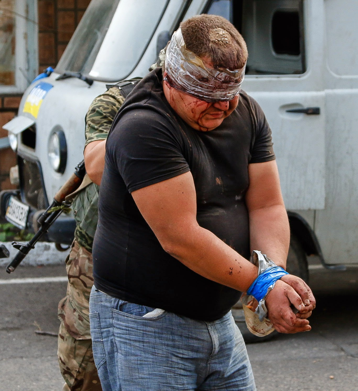 War in Donbass